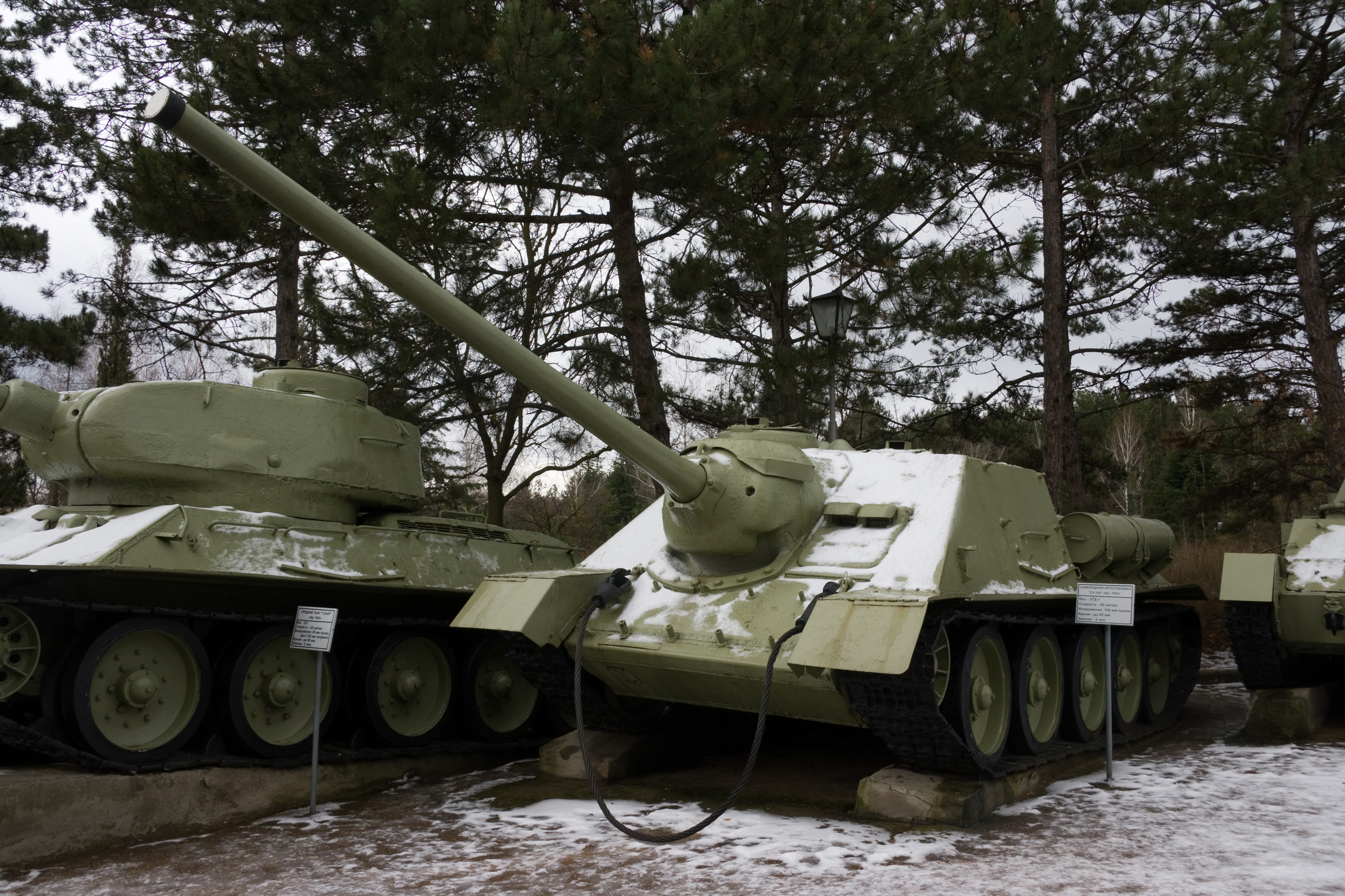 SU-100 1943 at Sapun-Gora